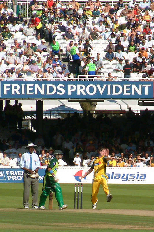 Brett Lee bowling against Pakistan at Lords. ICC Champions Trophy, warm up game 4th September 2004